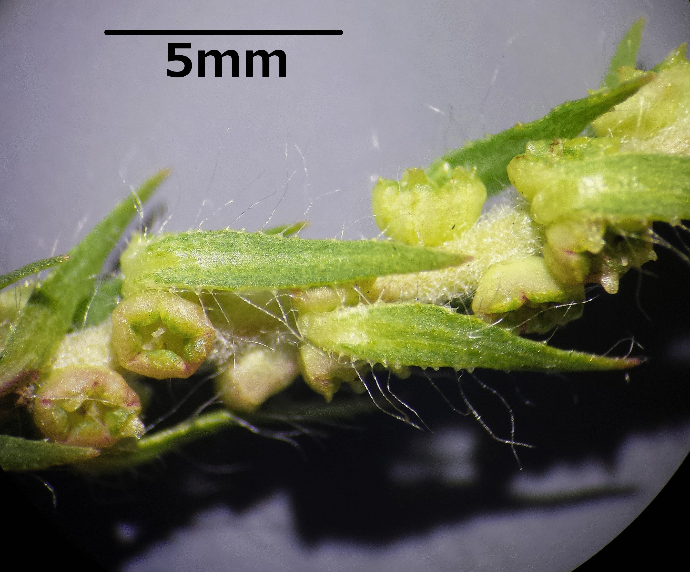 Stipe with leaves and fruits Taxon: Bassia scoparia cf. subsp. densiflora (sensu Fischer et al. EfÖLS 2008) Location: corner An der Schanze / Dückegasse, Donaufeld, Vienna-Floridsdorf - ca. 160 m a.s.l. Habitat: ruderal wayside inbetween fields